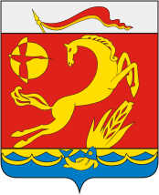 Kanevsky rayon (Krasnodar krai), coat of arms